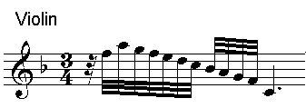 Concerto No. 3 in F major Op. 8 "Autumn" ("L`Autunno") RV 293